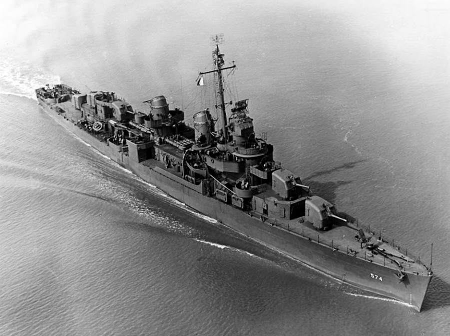 The U.S. Navy destroyer USS John Rodgers (DD-574) underway off Charleston, South Carolina (USA), on 29 April 1943.